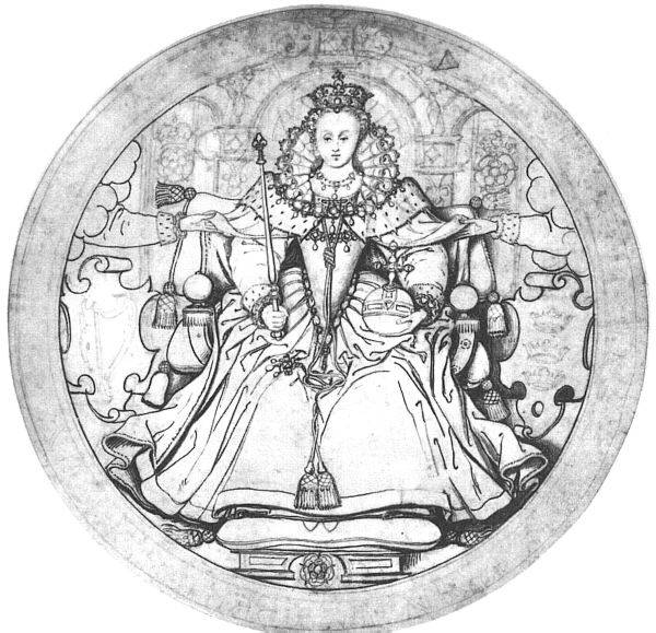 Design for the obverse of a Great Seal for Ireland (never made) of Elizabeth I of England, pen and ink wash over pencil; British Museum, London